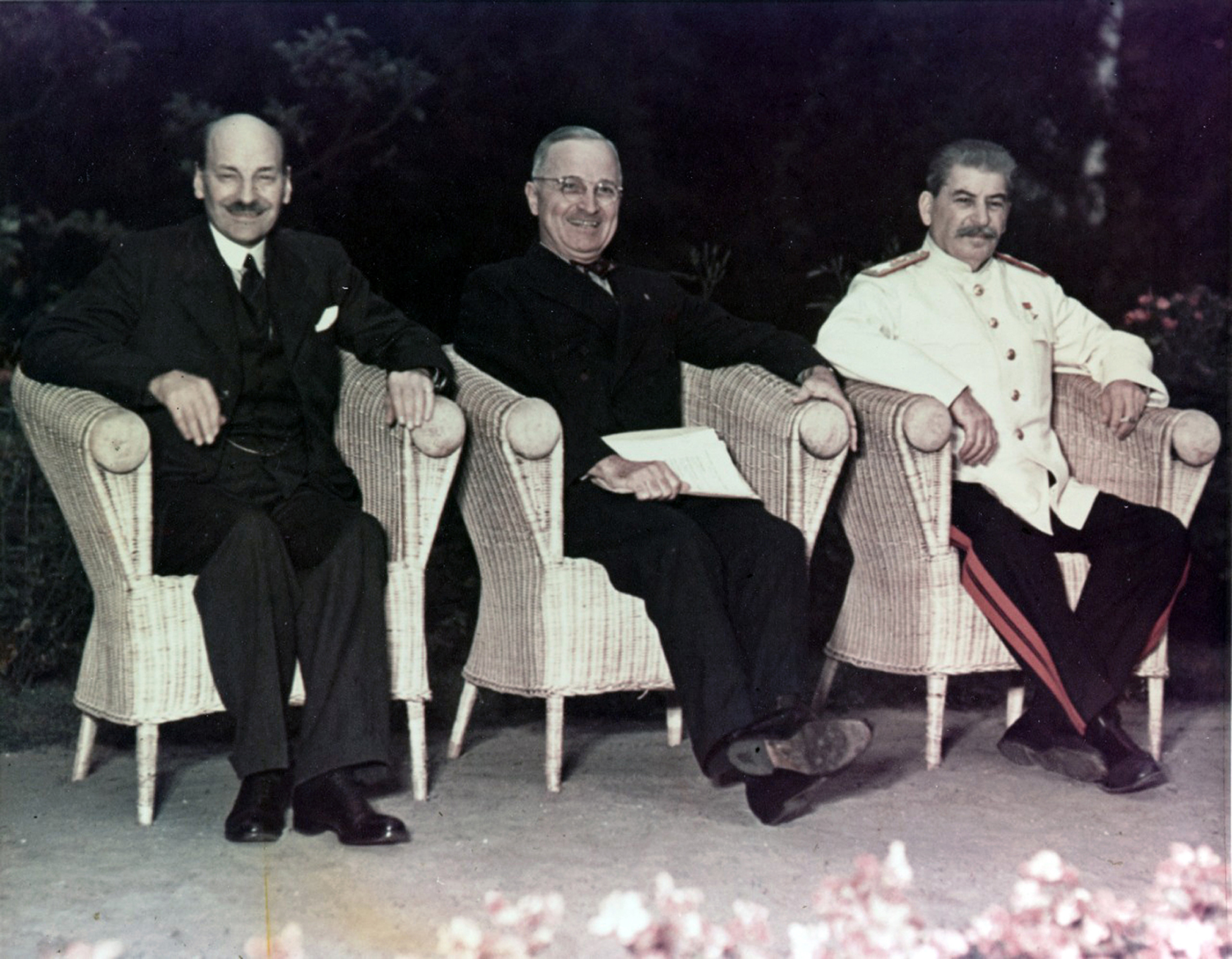 Clement Attlee, Harry S. Truman, and Joseph Stalin at the Potsdam Conference, July 1945. A more common photograph shows the three men in the same position with their advisors standing behind them; in this, they are seated on their own and looking directly at the camera.